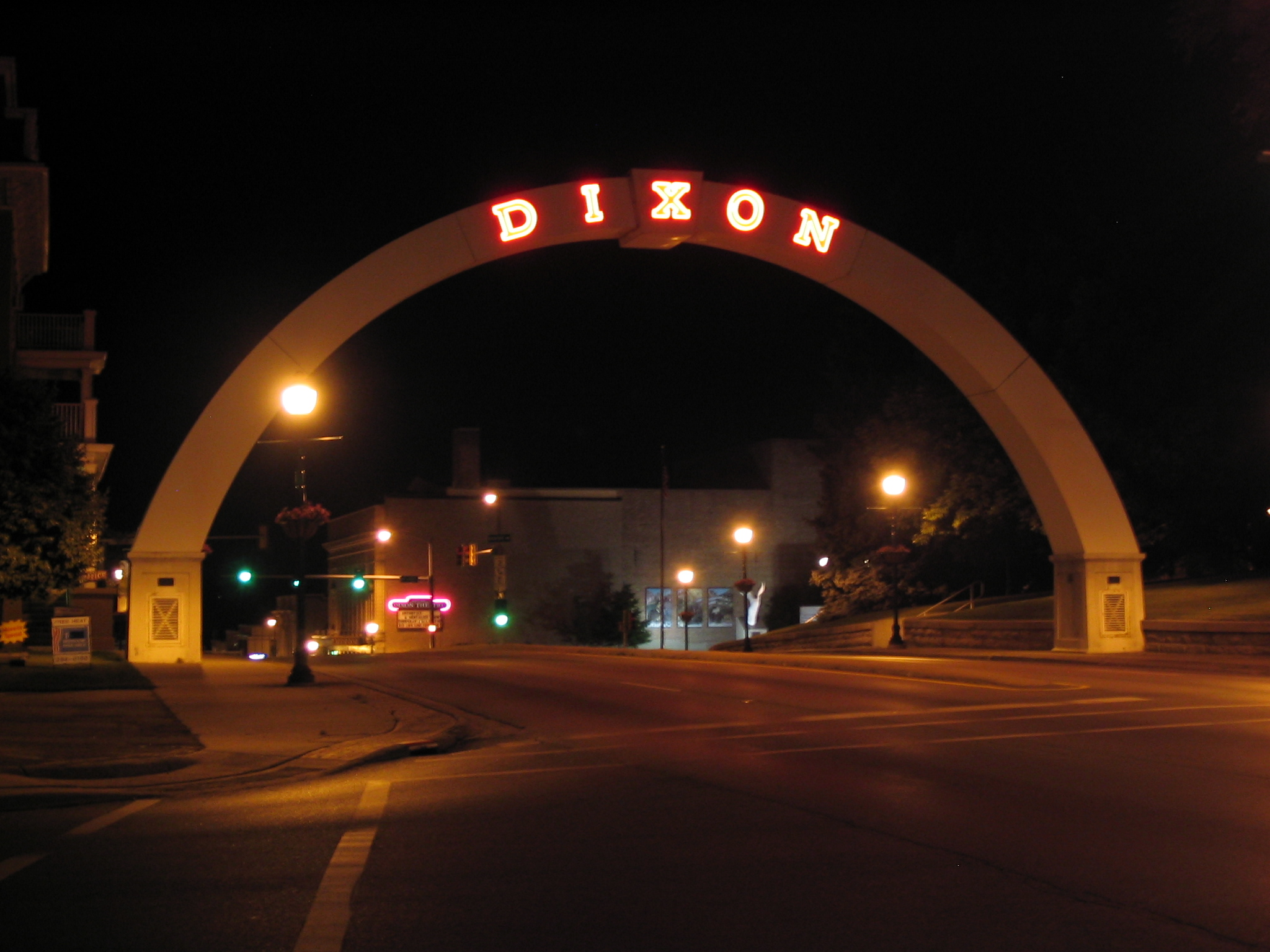 The WWI Memorial Arch on Galena Avenue in Dixon, Illinois